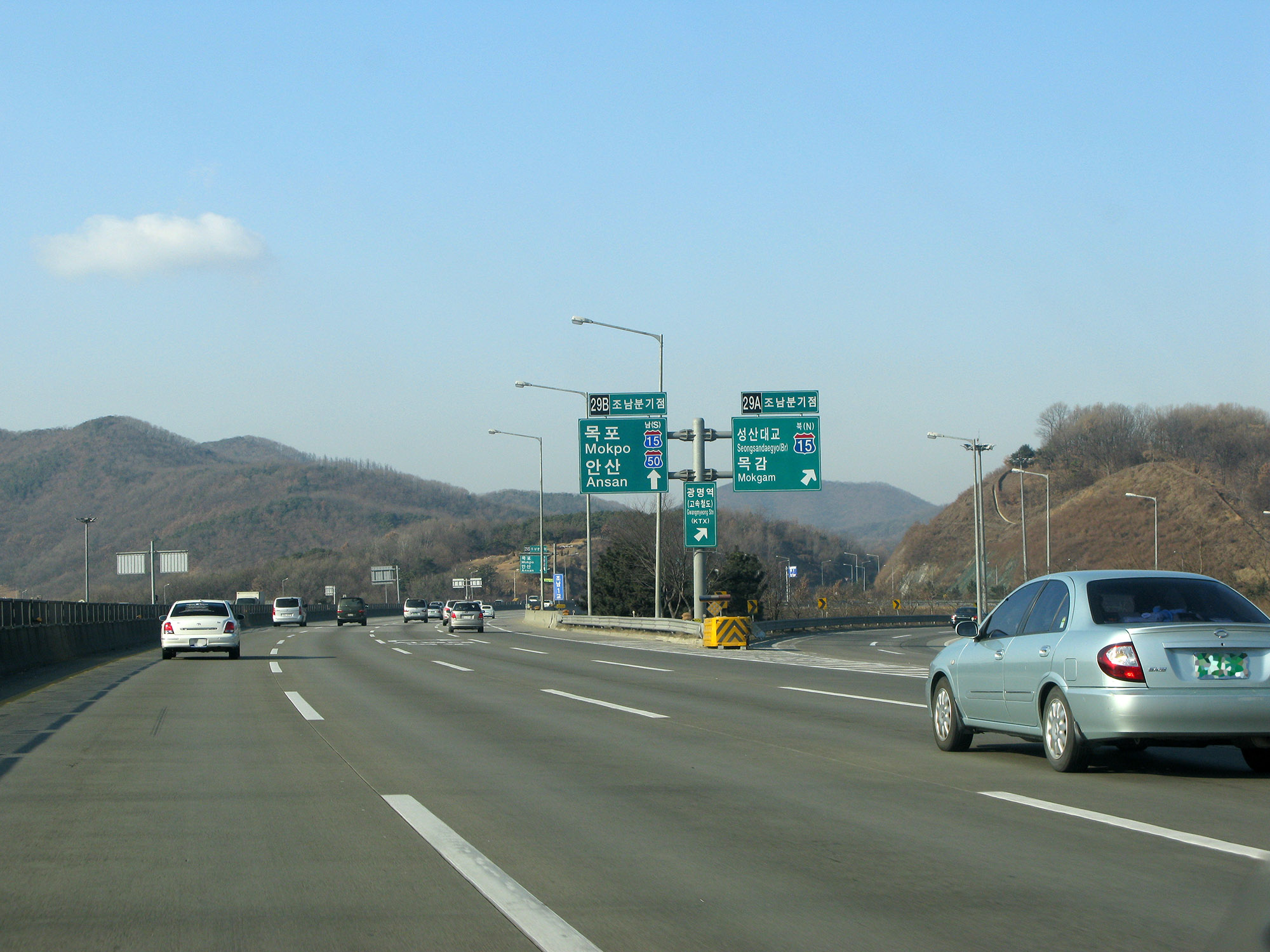 Seohaean Expressway, Seoul Ring Expressway Jonam JCT